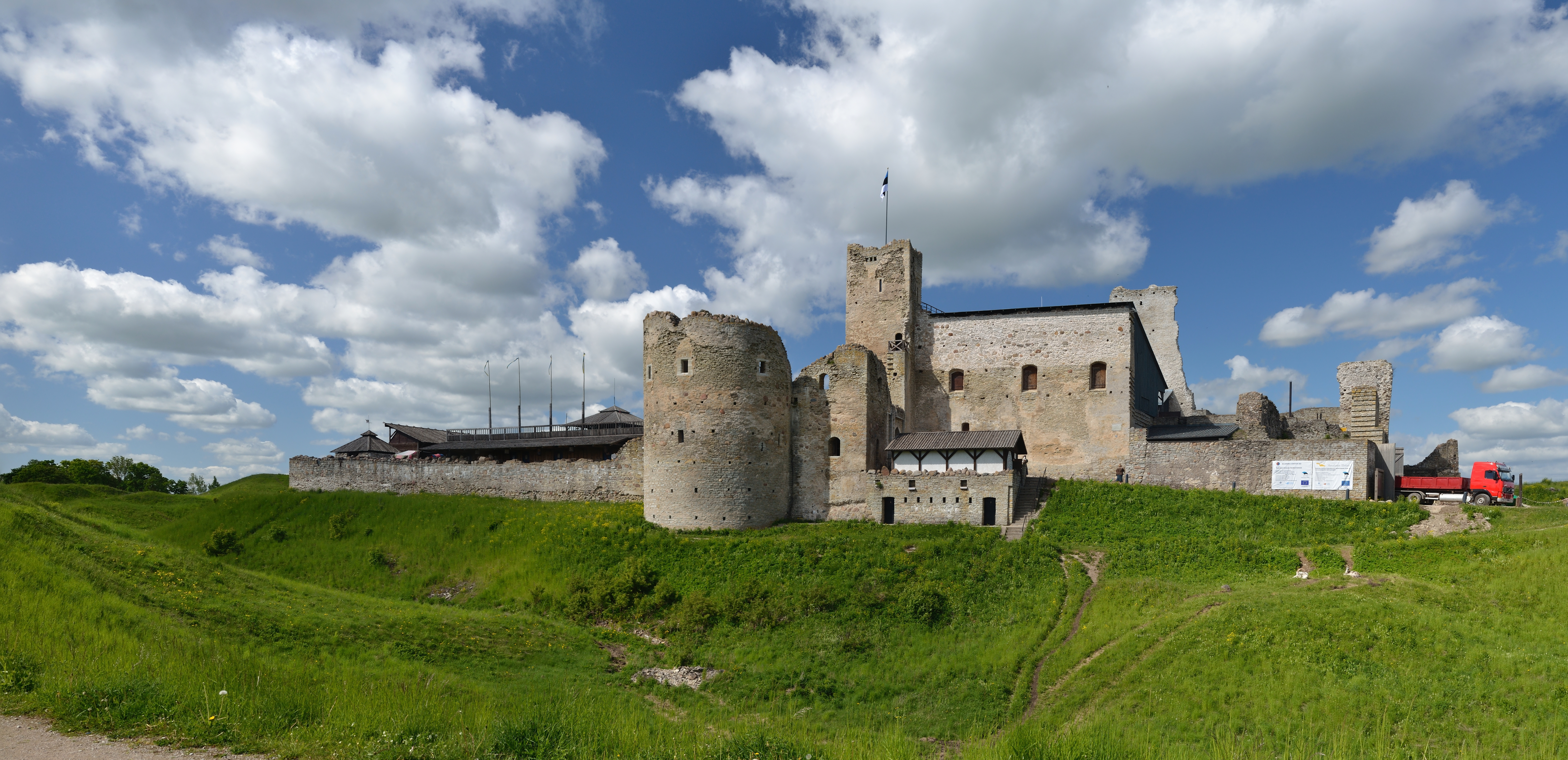 Rakvere castle ruins